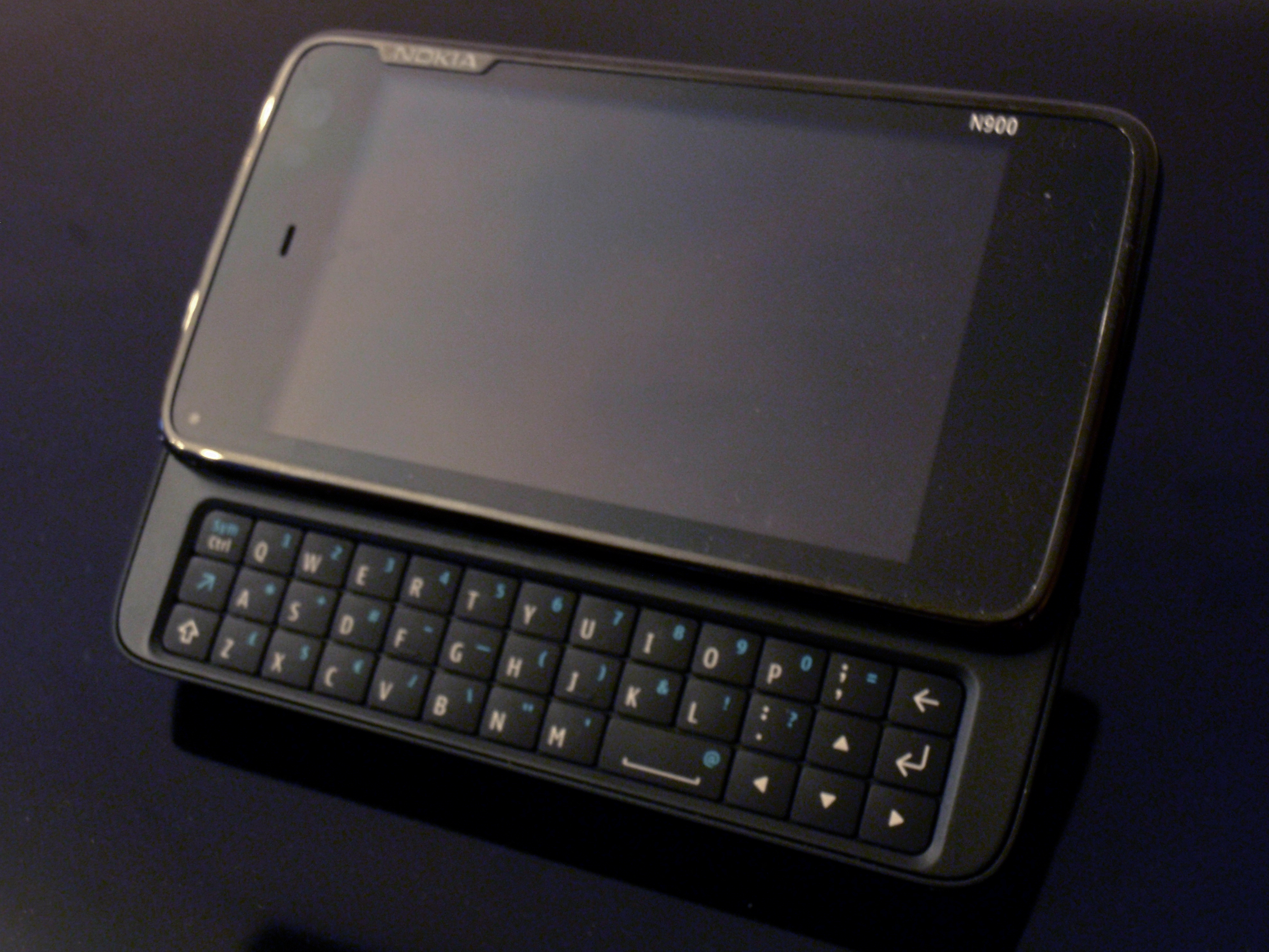 The Nokia N900 communicator mobile phone, features a full keyboard and a kickstand.